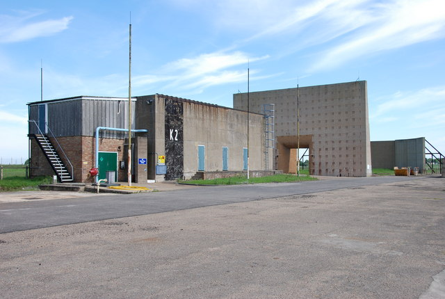 K2 Site Former Rocket Motor Test Facility